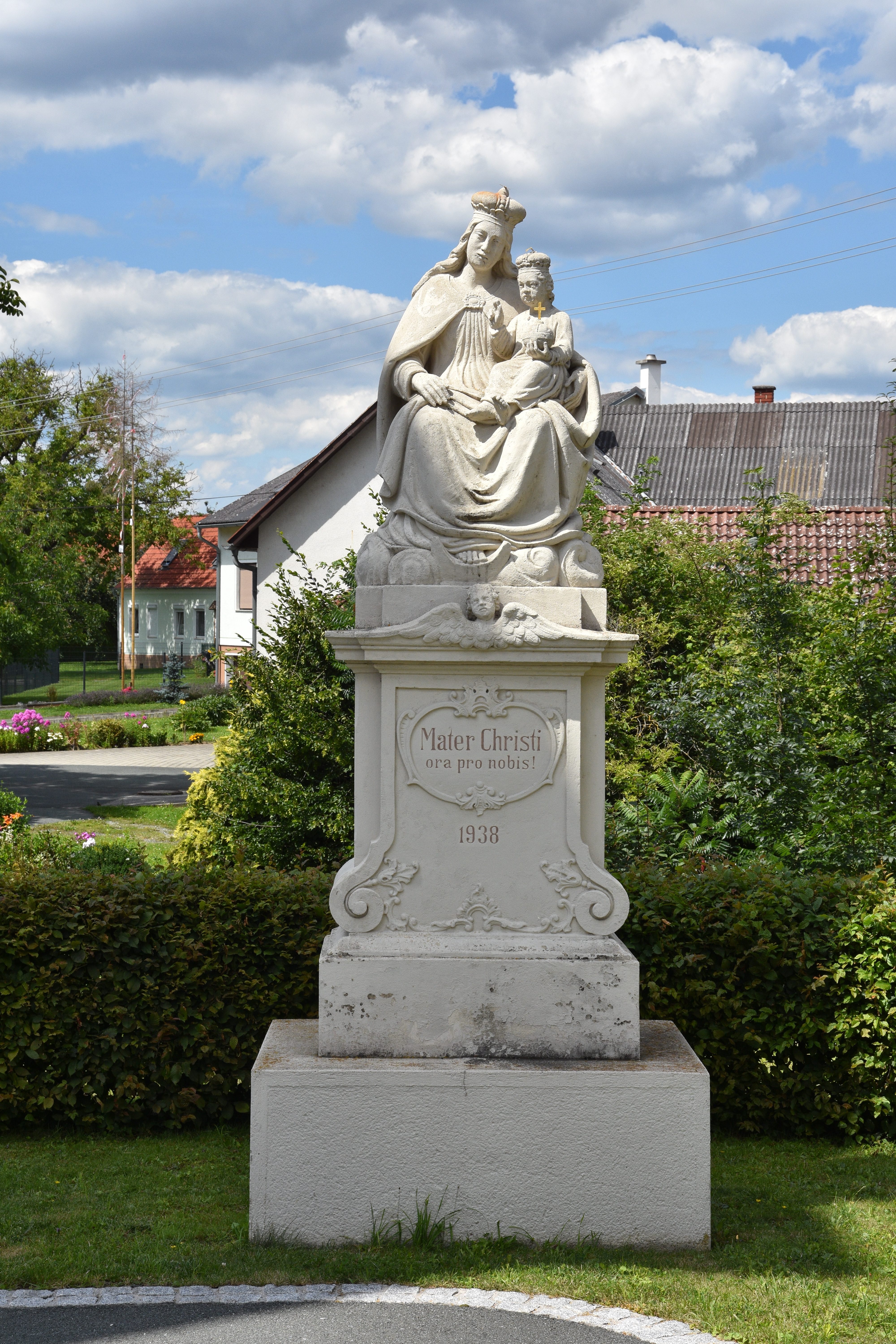 Statue Mater Christi Eisenzicken